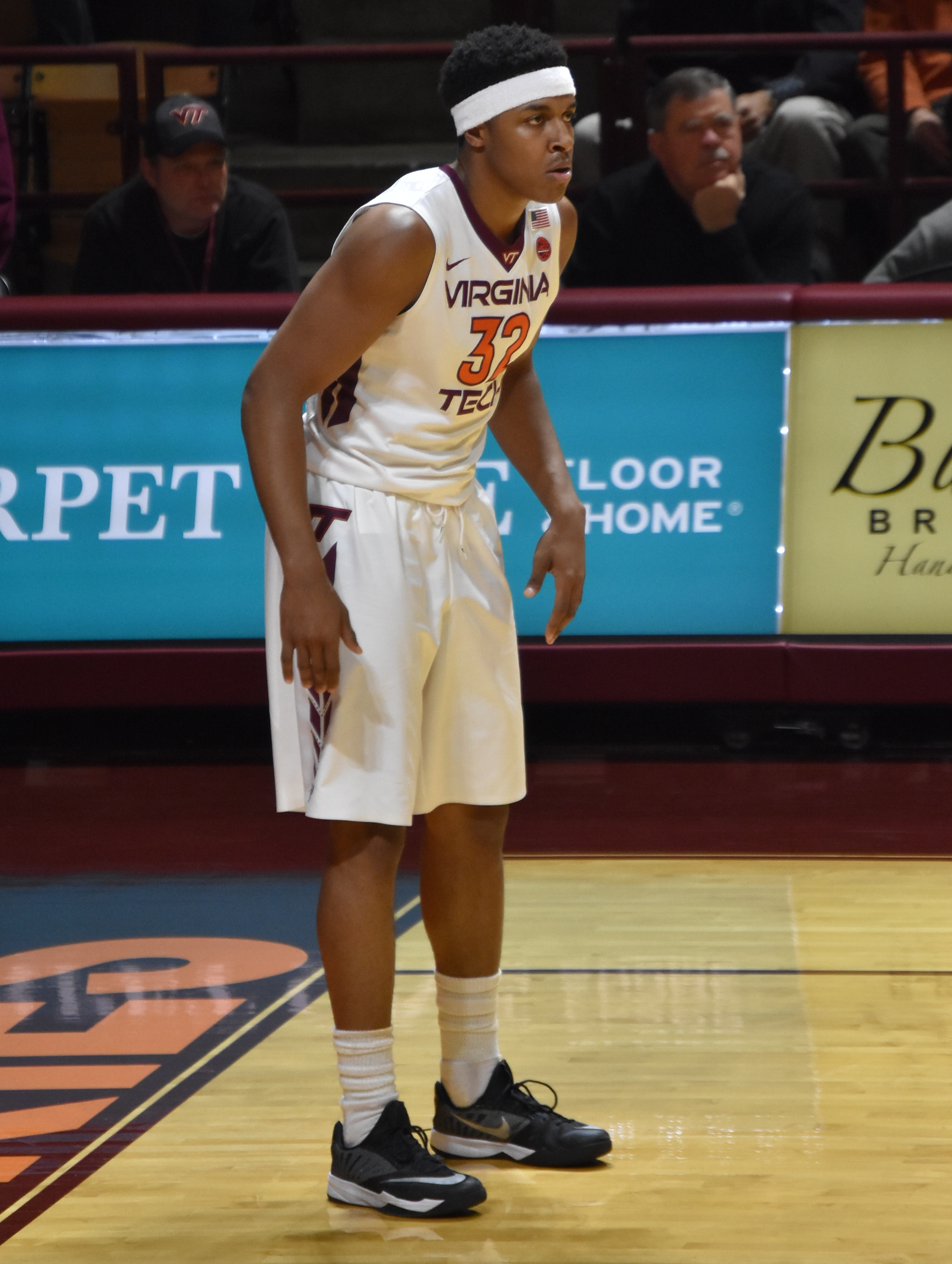 Zach Leday patrols the baseline for the Hokies